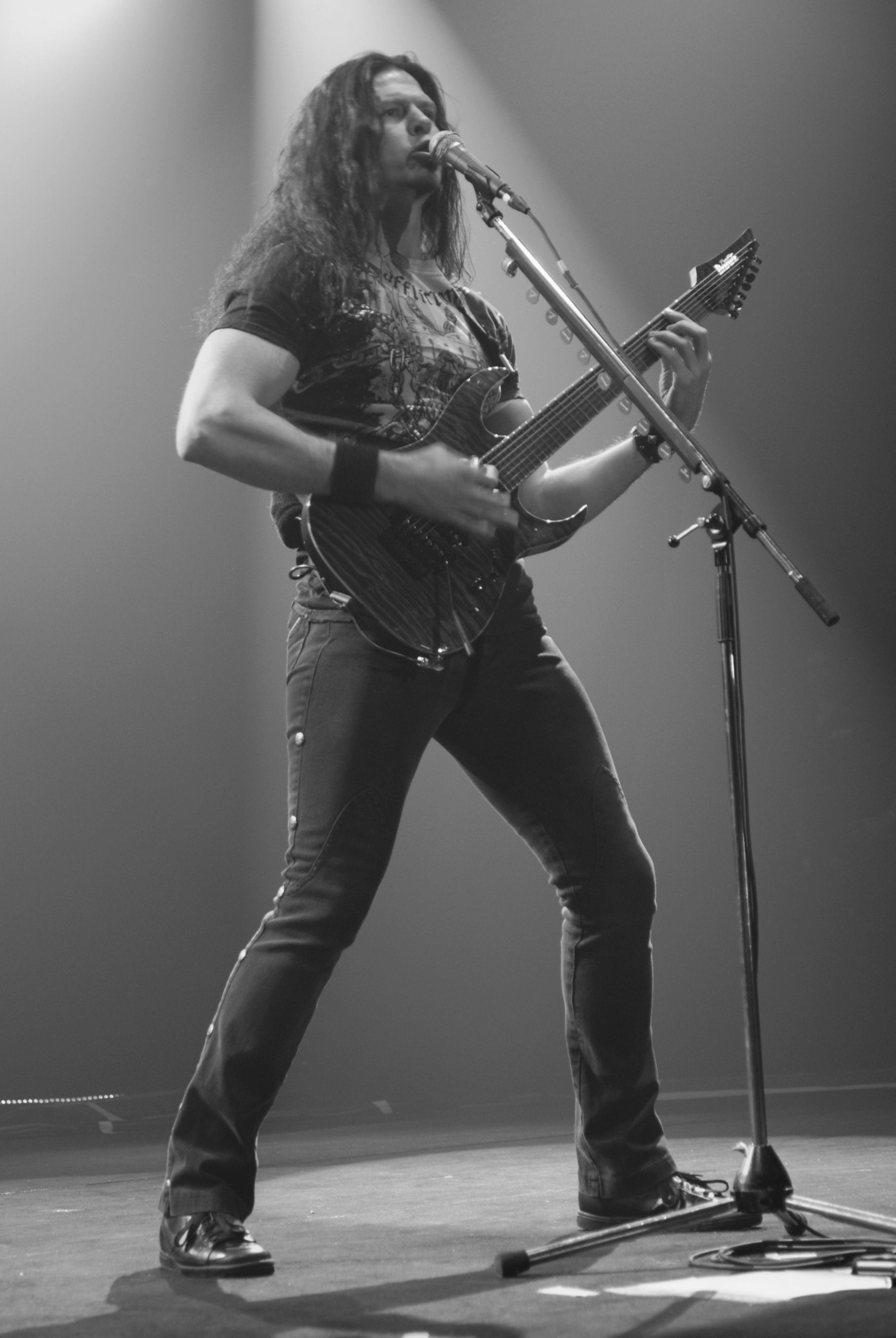 Chris Broderick from Megadeth during Metalmania 2008 festival